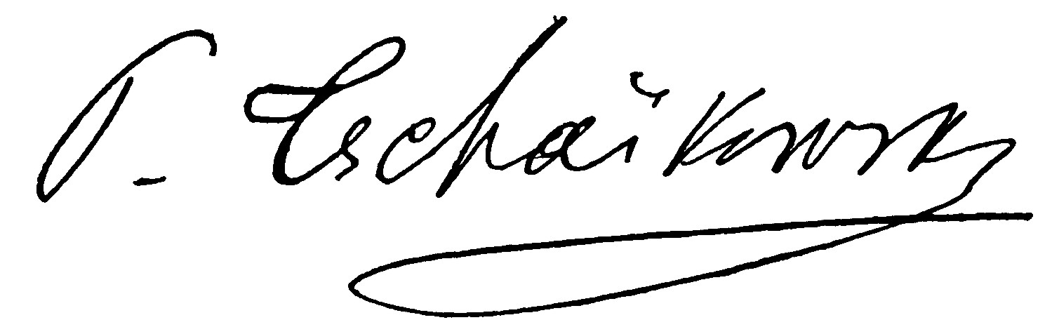 Tchaikovsky's signature